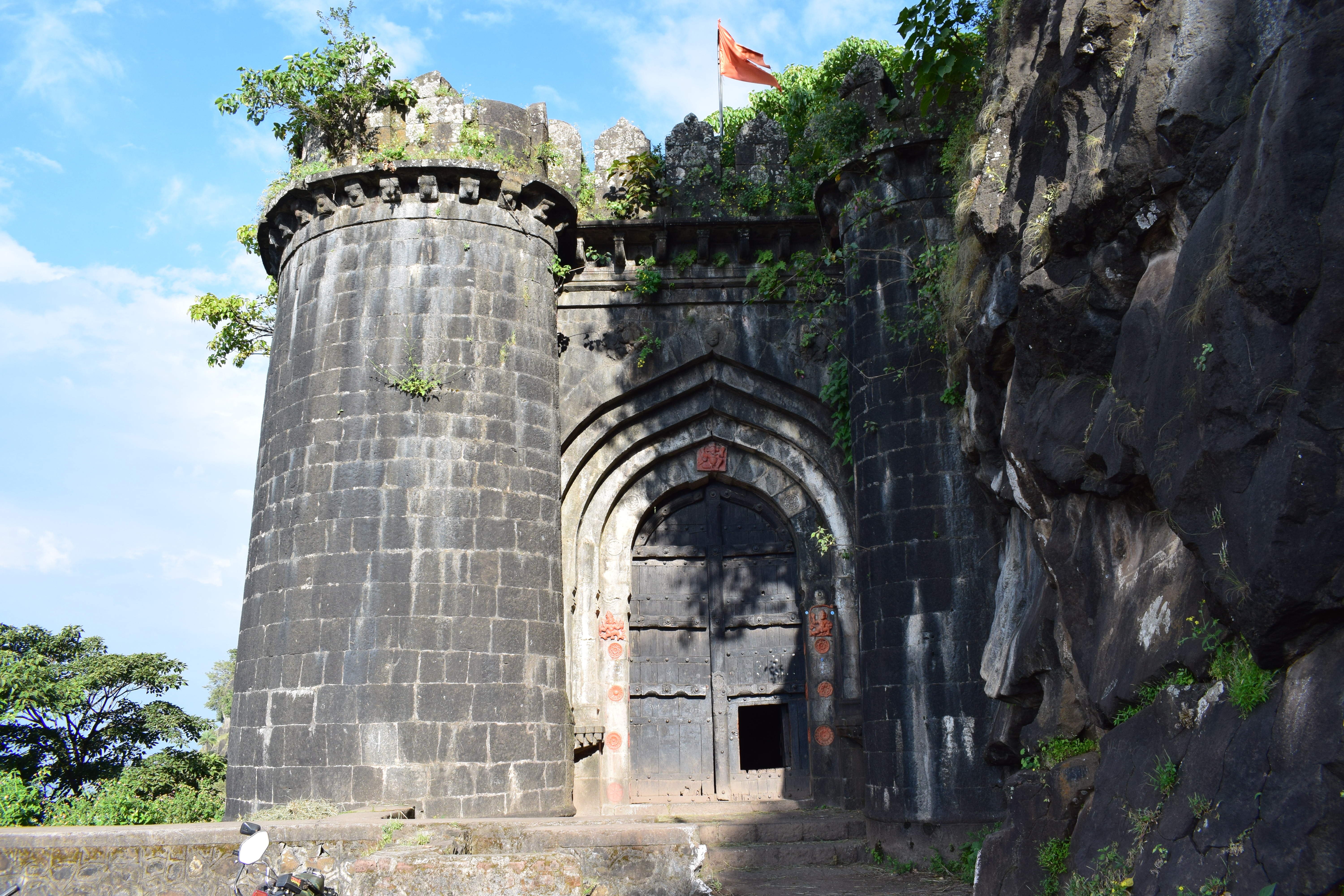 Main Gateway, Ajinkyatara